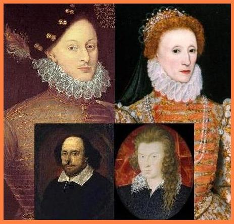 illustration of Prince Tudor theory